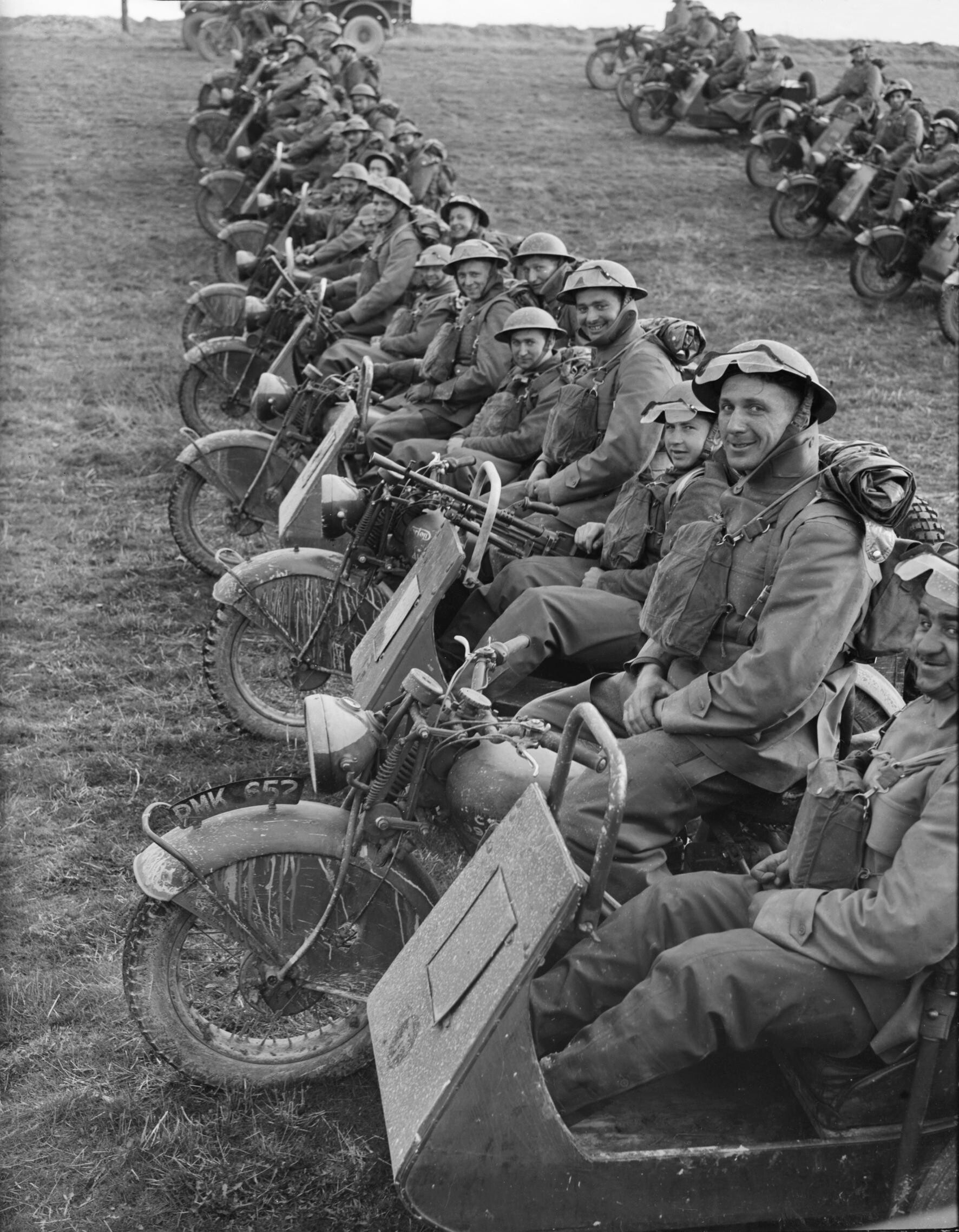 The British Army in France 1940 Motorcycle combinations of 4th Northumberland Fusiliers at Fontaine, 20 March 1940.